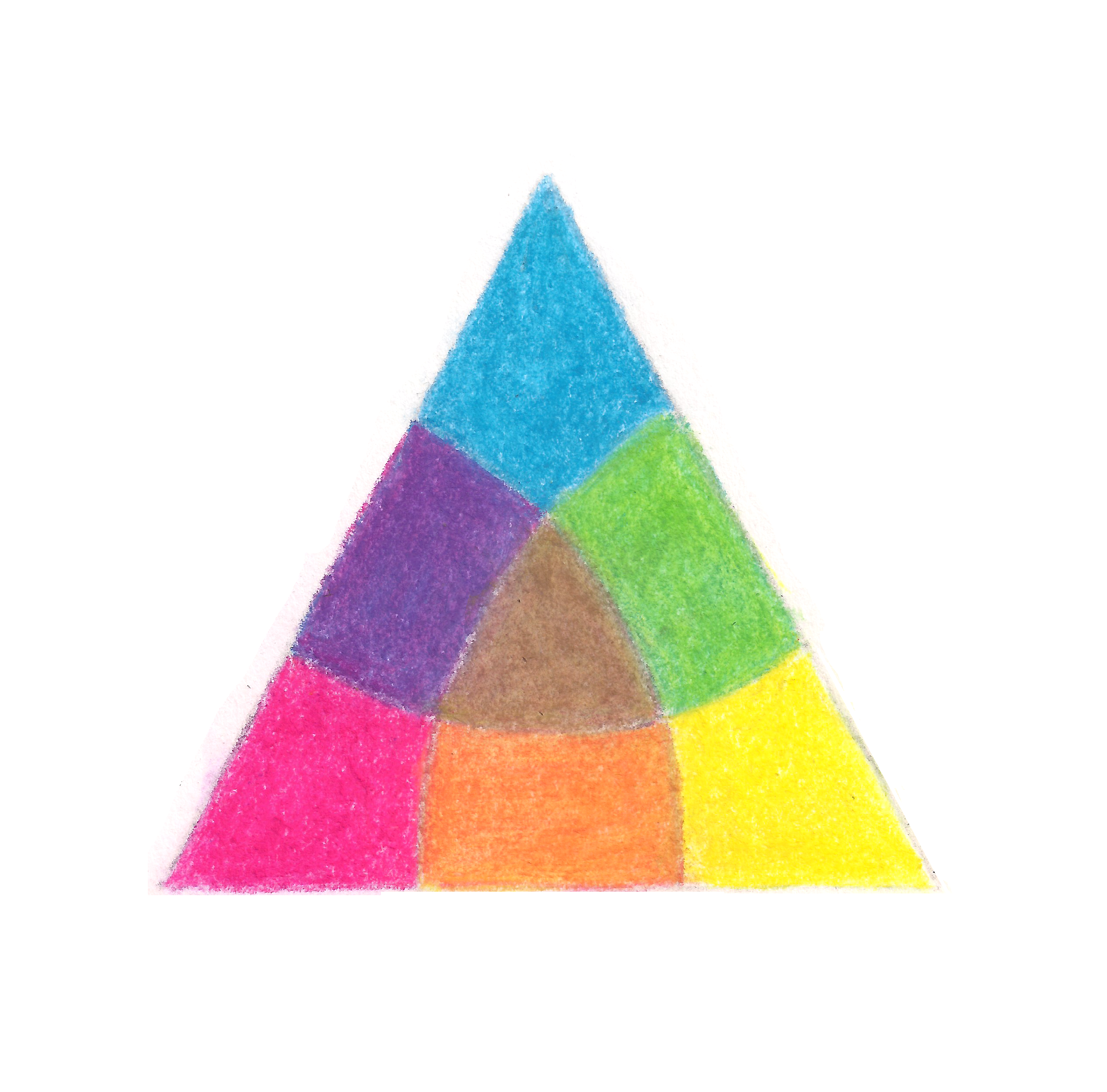 Mixture of RYB color model